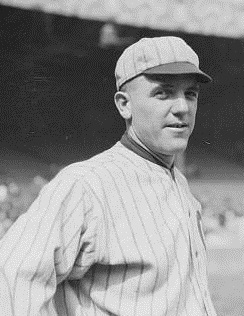 Chicago White Sox pitcher Eddie Cicotte at Hilltop Park in 1912